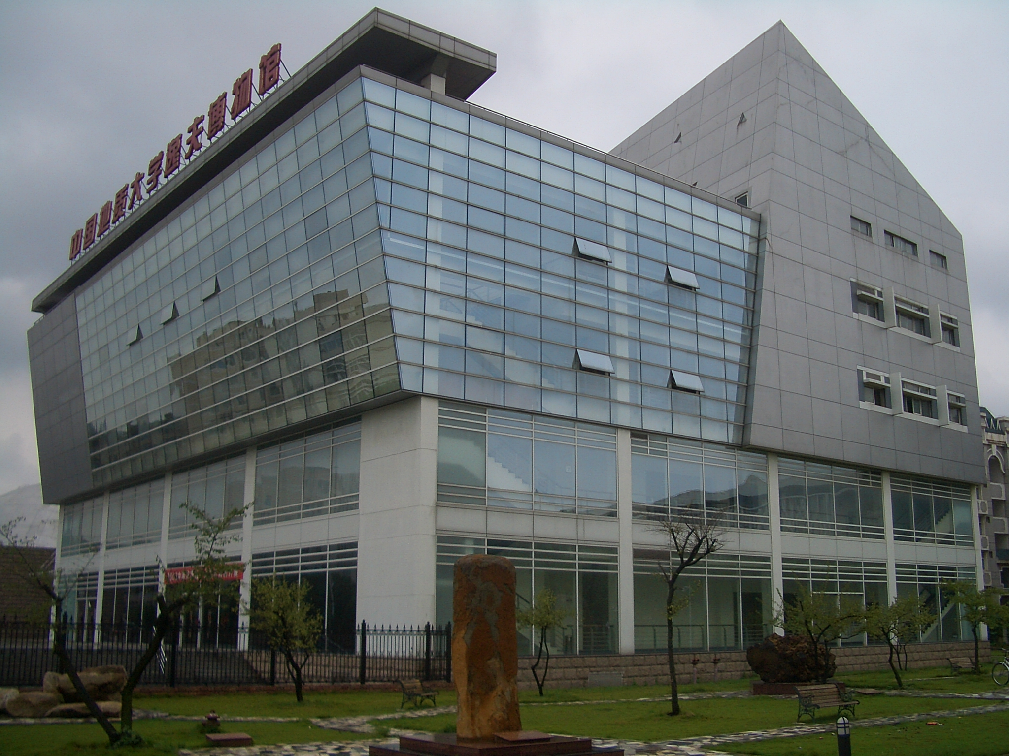 The museum at the China University of Geosciences, Wuhan